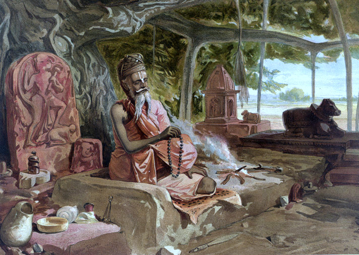 This chromolithograph is taken from plate 16 of William Simpson's 'India: Ancient and Modern'. Holy men seated under trees, often a banyan tree as depicted in the painting, were a regular sight in India. The word fakir is derived from Arabic and means someone poor in the eyes of God. Used traditionally to describe itinerant Muslim mendicants, the word began to be applied imprecisely to Hindu holy men and ascetics who performed voluntary penances and went on pilgrimages. Simpson wrote of this portrait: "Many were dirty ascetics, but this was a clean, handsome old man, with a gentle countenance and the most courteous manners. His name was Gopal Dass, and he was a disciple of Seeta. His utensils for his simple wants: the gourd for water, a brass dish for food, his pipe with a bit of cloth at the end of it, tongs to lift the embers to light it with, and a conch shell he sounds when he enters the temple." Behind him, smeared in red colour, is a sculpture of Hanuman, the monkey god